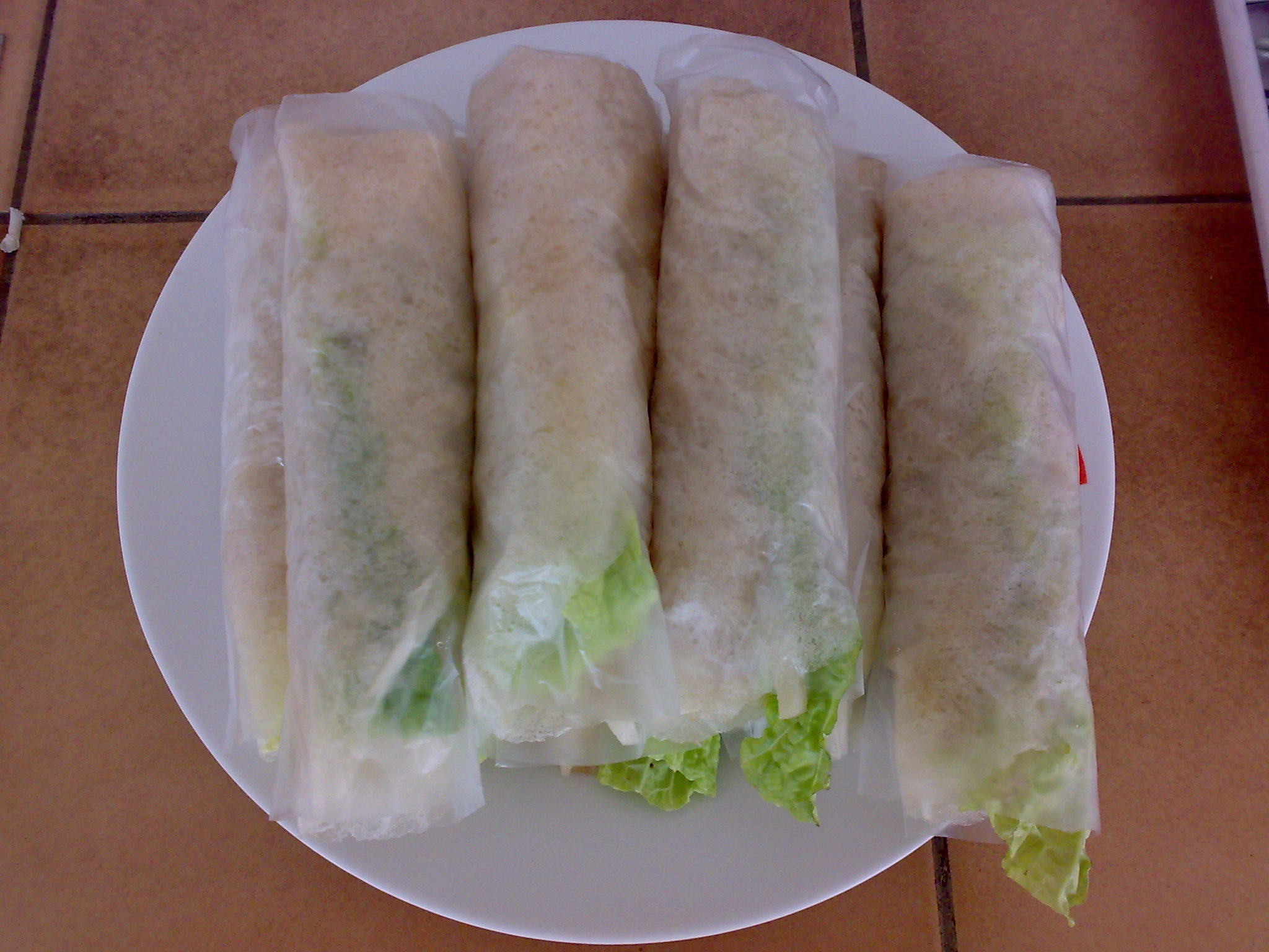 Fresh lumpia. Primarily heart of palm, wrapped in crepe.